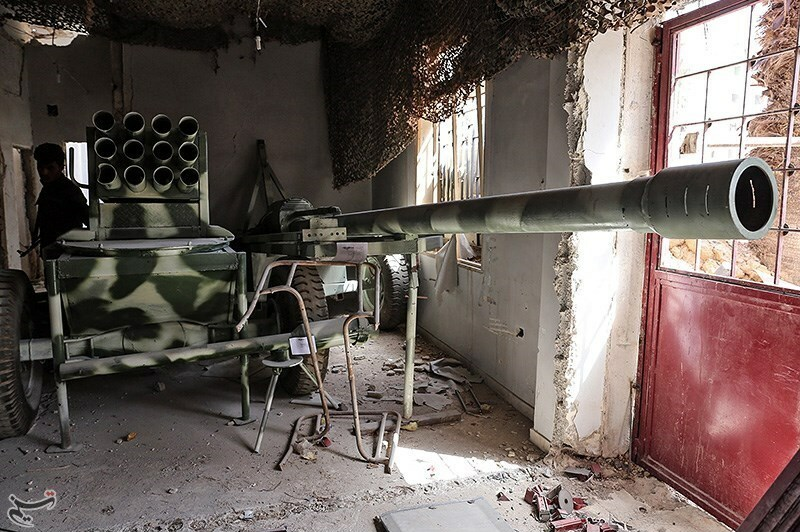 On Sunday, February 25, 2018, the Syrian Arab Army launched a massive campaign to liberate the eastern plutonium on the outskirts of Damascus, and eventually on April 25th, April 25, April 14, 2018, a proclamation of freedom and full cleansing of insurgents was announced.